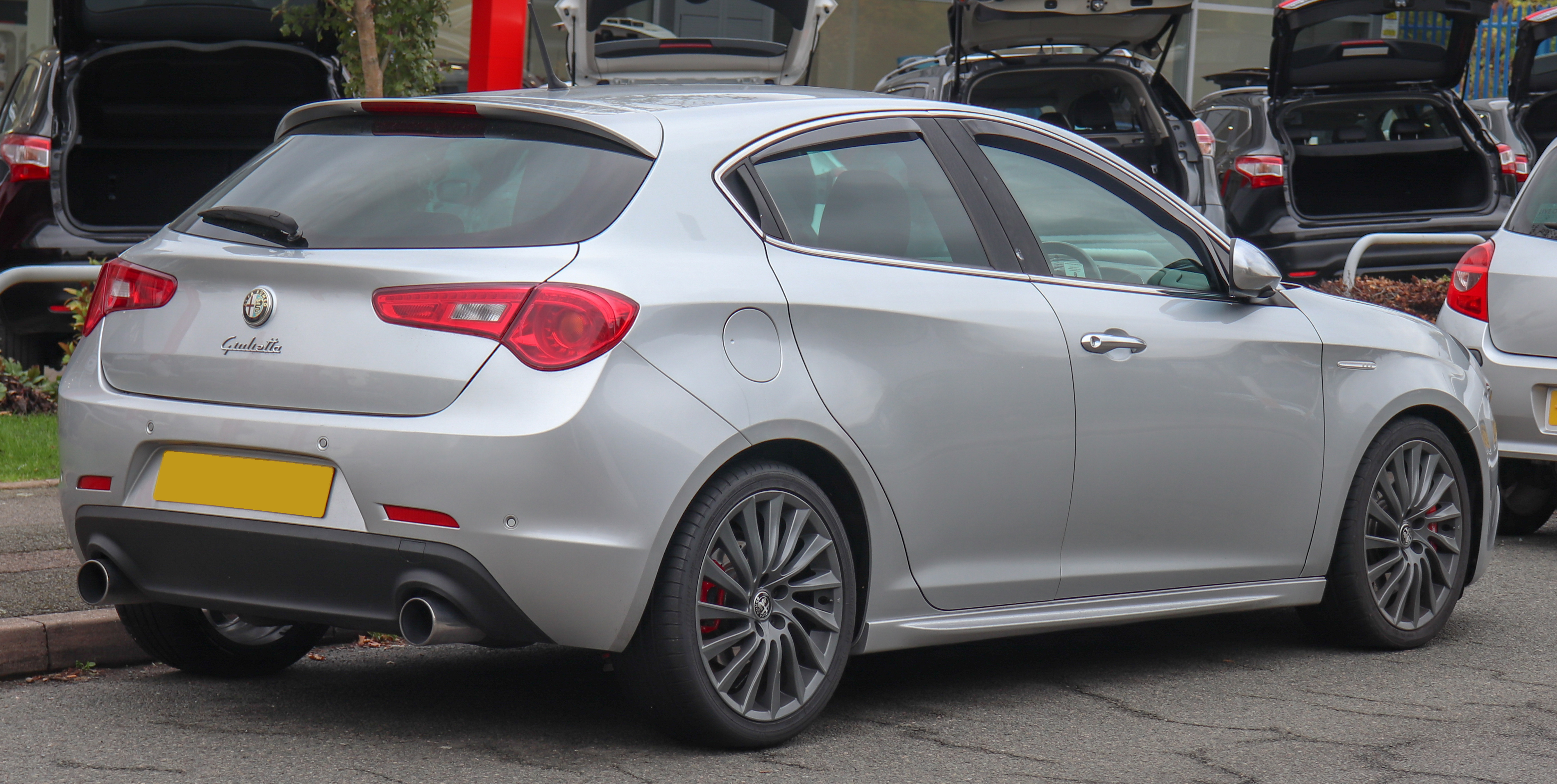 2011 Alfa Romeo Giulietta Veloce JTDm-2 2.0 Rear Taken in Leamington Spa